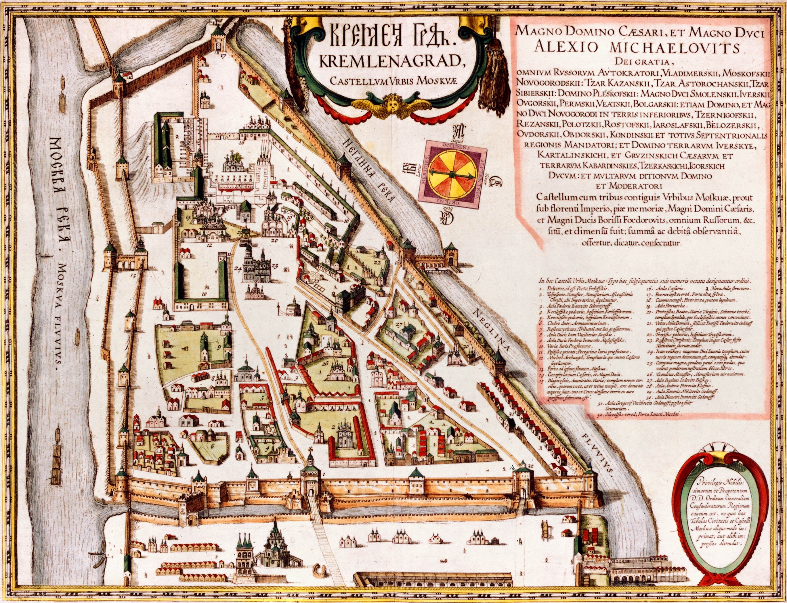 Kremlenagrad Castellum Urbis Moskvae: the first detailed map of the Moscow Kremlin, created during the reign of Alexis MikhailovichLatina: Tabula Castelli Urbi Moskuae (Kremlin); Alexio Michaelo filio rege a Ioanne Blaeuo factus